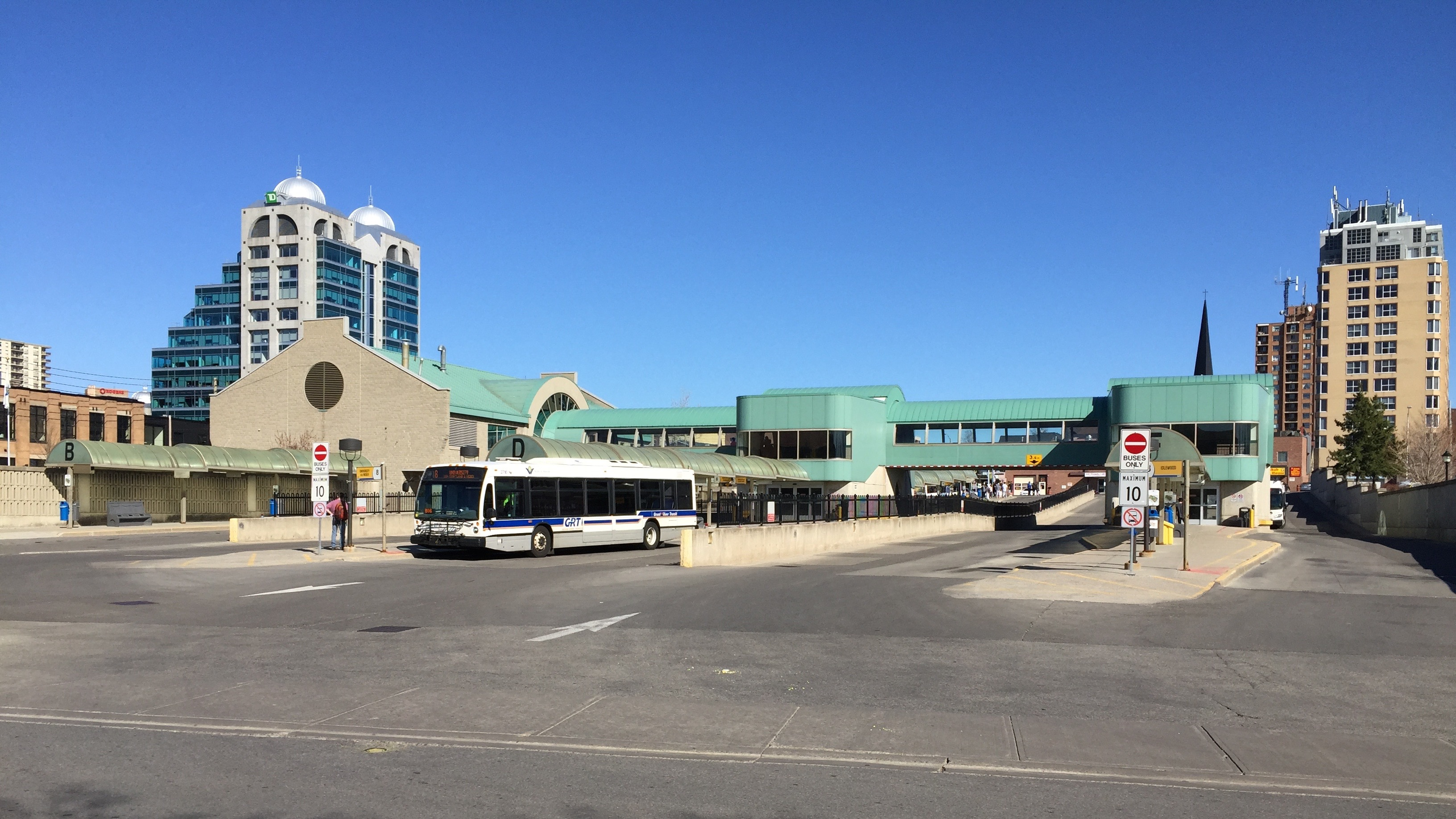 Charles St. Transit Terminal in Kitchener, Ontario.